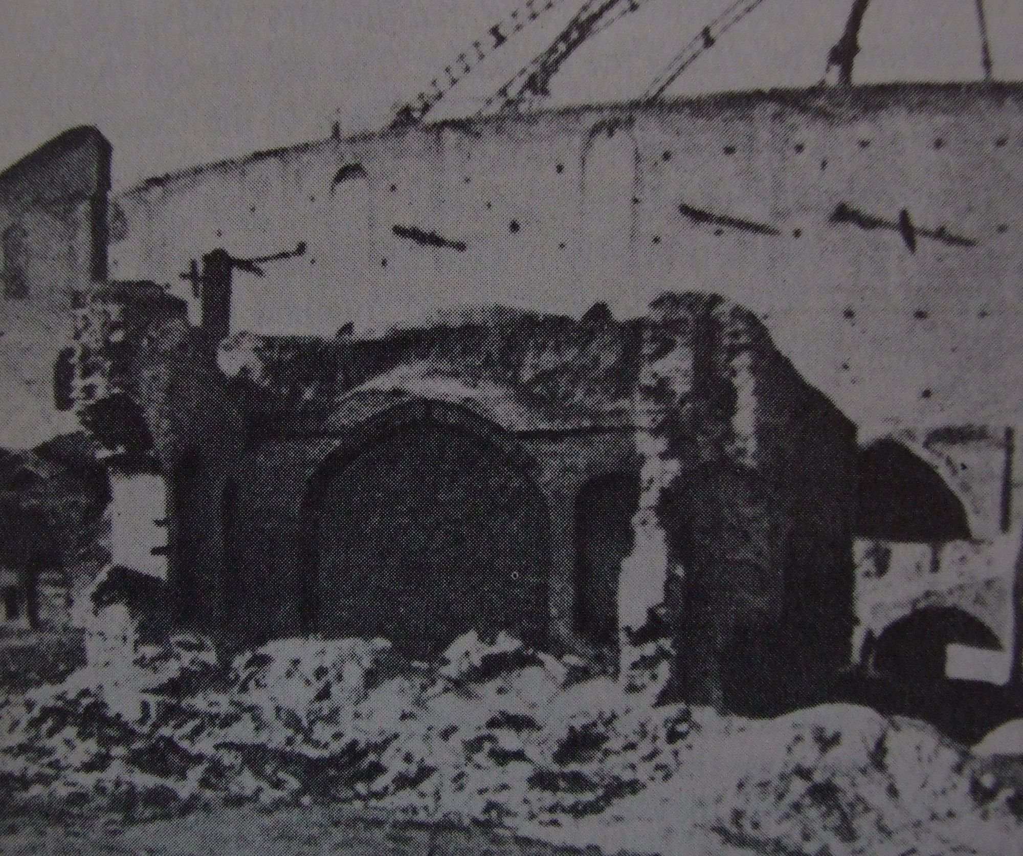 Síyáh-Chál, Tehran (filled-in in 1868). Original corridor to the entrance.